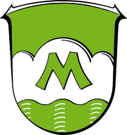 Coat of Arms of Meinhard